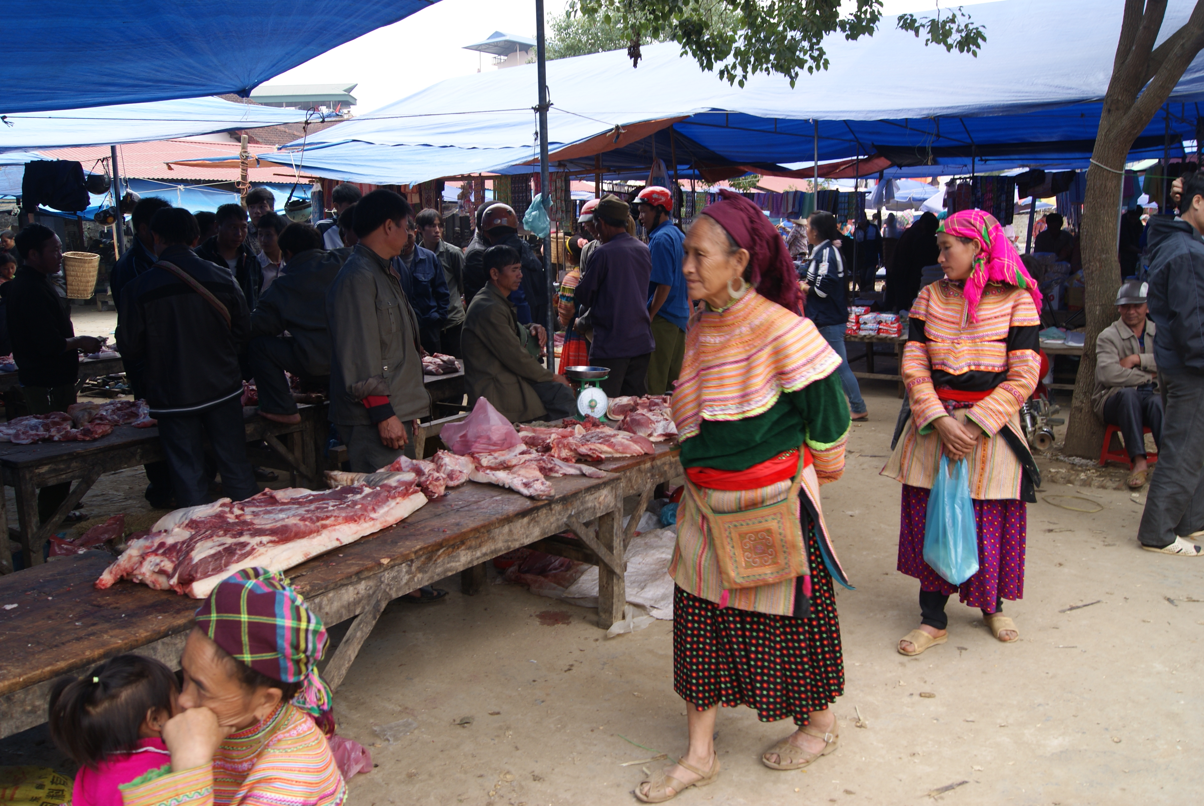 Bắc Hà Sunday market, Vietnam.